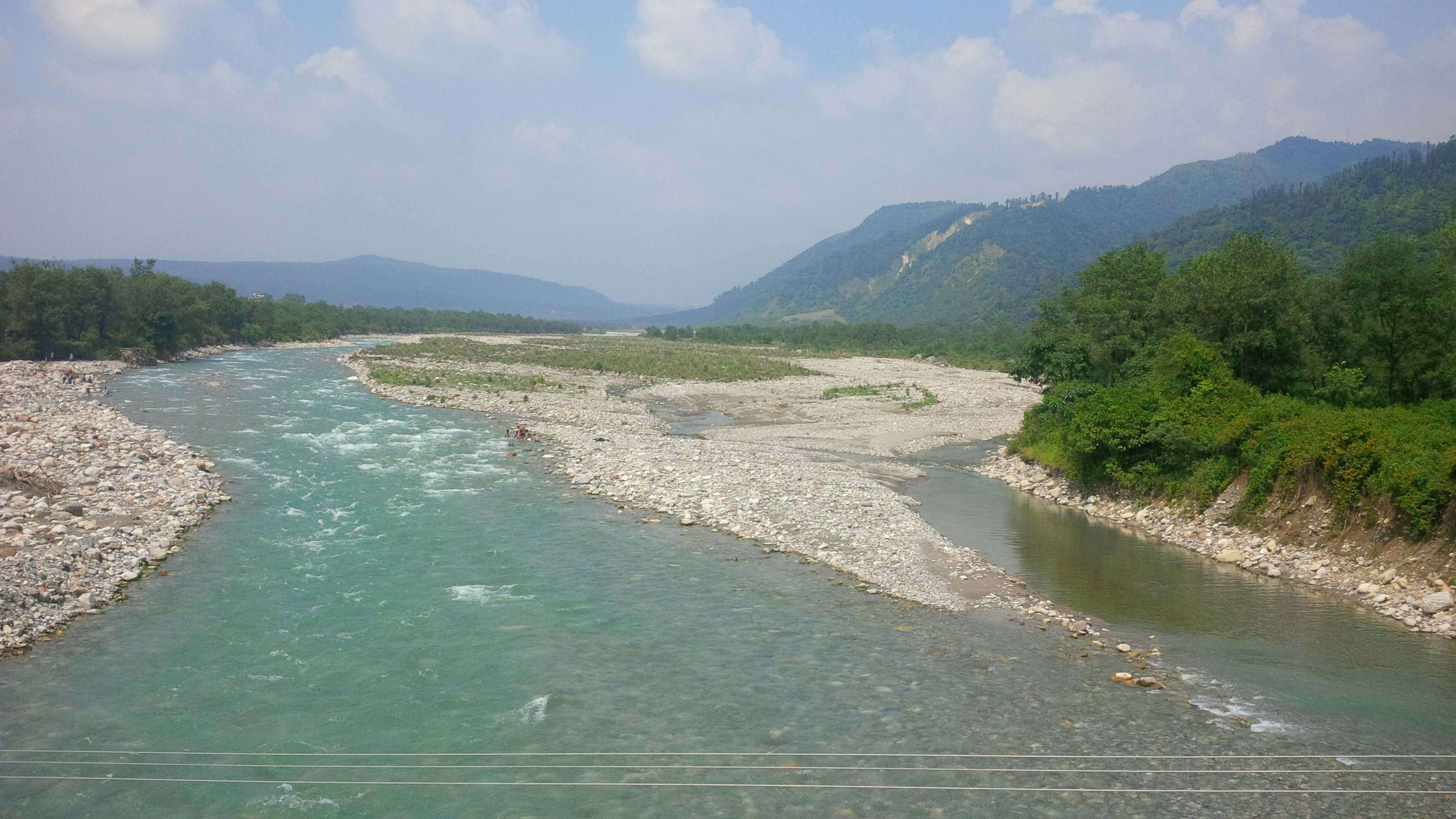 Song River flowing through Raipur, Uttarakhand